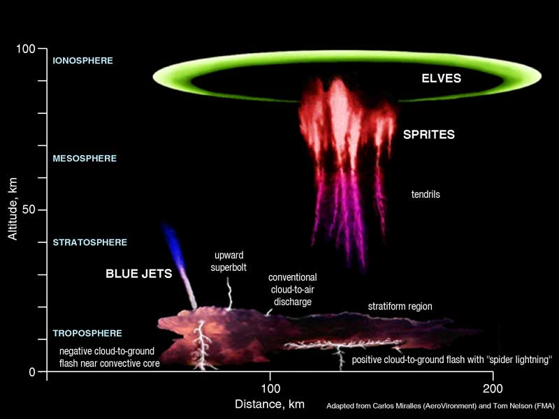 Transient Luminous Events Large thunderstorms are capable of producing other kinds of electrical phenomena called transient luminous events (TLE's). The most common TLE's include red sprites, blue jets, and elves. Red Sprites can appear directly above an active thunderstorm as a large but weak flash. They usually happen at the same time as powerful positive CG lightning strokes. They can extend up to 60 miles from the cloud top. Sprites are mostly red and usually last no more than a few seconds, and their shapes are described as resembling jellyfish, carrots, or columns. Because sprites are not very bright, they can only be seen at night. They are rarely seen with the human eye, so they are most often imaged with highly sensitive cameras. Blue jets emerge from the top of the thundercloud, but are not directly associated with cloud-to-ground lighting. They extend up in narrow cones fanning out and disappearing at heights of 25-35 miles. Blue jets last a fraction of a second and have been witnessed by pilots. Elves are rapidly expanding disk-shaped regions of glowing that can be up to 300 miles across. They last less than a thousandth of a second, and occur above areas of active cloud to ground lightning. Scientists believe elves result when an energetic electromagnetic pulse extends up into the ionosphere. Elves were discovered in 1992 by a low-light video camera on the Space Shuttle.